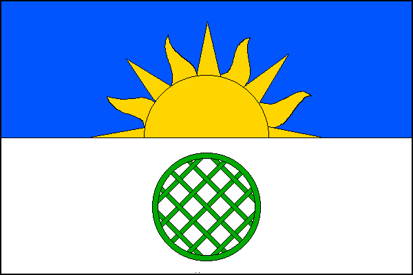 Municipal flag of Kamenná village, Šumperk District, Czech Republic.